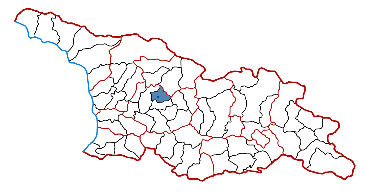 Location of Tqibuli district in georgia